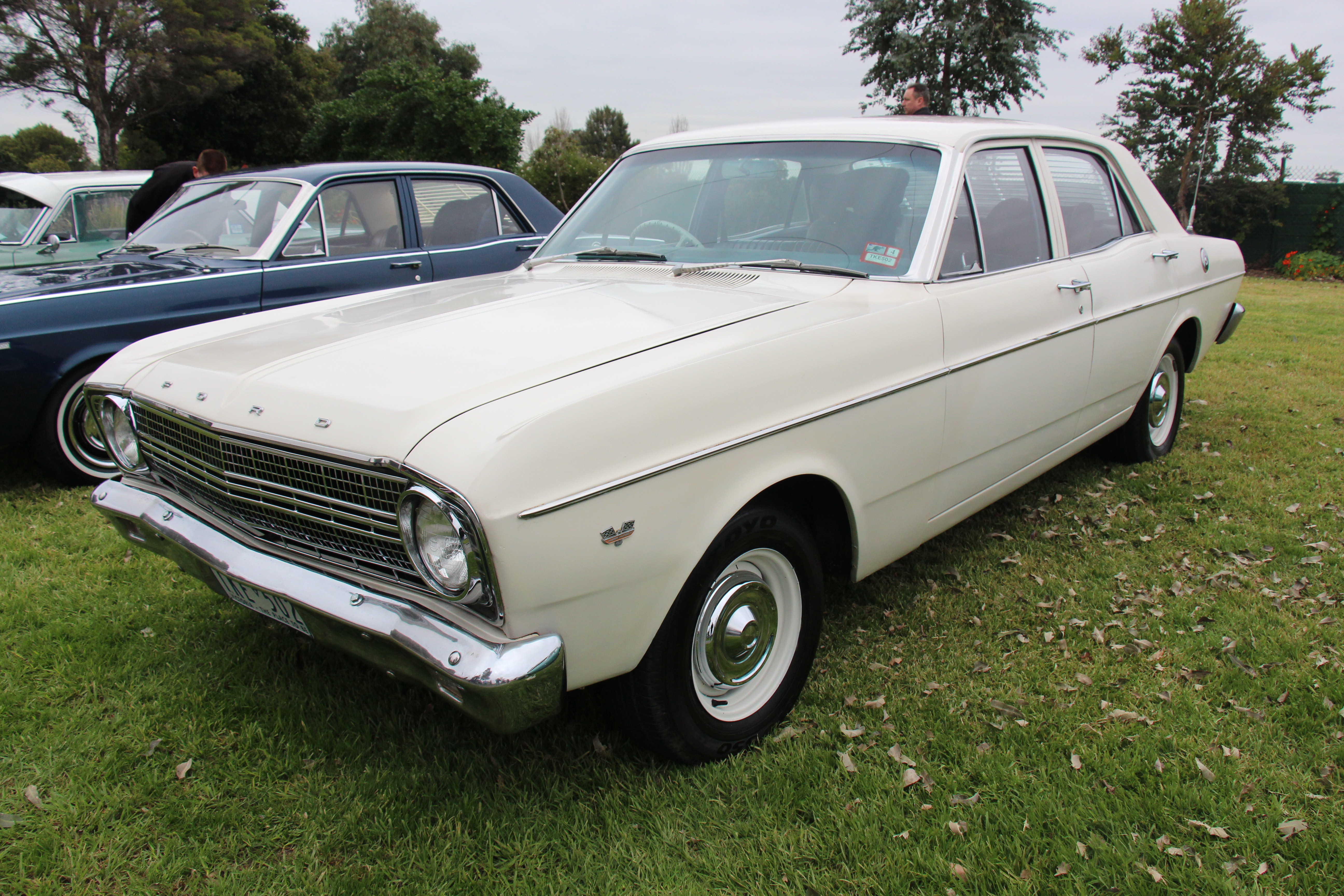 The XR Falcon was built from Sept 1966-March 1968. The XR was the 'Mustang bred' Falcon, completely new design with its long nose and short tail styling with a distinctive kick up at the back of the rear doors, known as the “Coke bottle” hip. It retained the traditional round Falcon tail lamps. Good news was a V8 and front disc brakes were now available, but the 2 door Hardtop was dropped As the V8 was now available, a performance model was introduced; the GT, which featured a high performance version of the 289 V8. The XR GT won the Gallaher 500 in 1967 at Bathurst. Engines; 170 Pursuit and 200 Super Pursuit 6s or 289 V8 Sedan; Standard, Falcon 500, Fairmont and GT Wagon; Standard, 500 and Fairmont also Utility and Panel Van